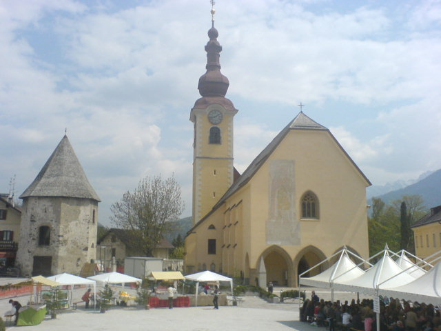 The parish church of Tarvisio